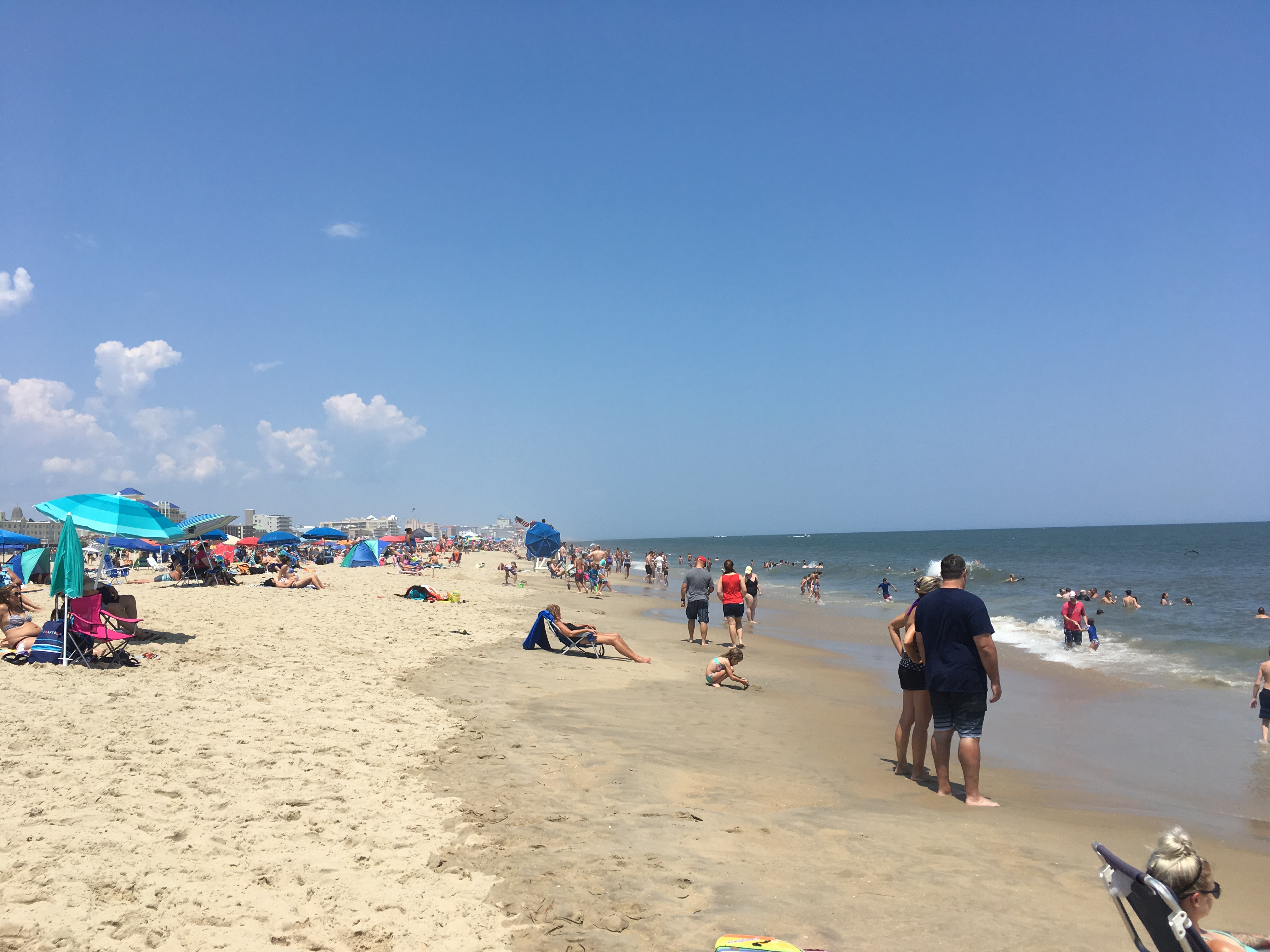 A view of the beach at Ocean City, Maryland looking north at Somerset Street